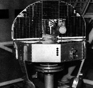 The Third Orbiting Solar Observatory, OSO-3, was launched on 8 March 1967, into a nearly circular orbit of mean altitude 550 km, inclined at 33 degrees with respect to the equatorial plane. The satellite had two principle components, a continuously spinning wheel in which the hard X-ray experiment is mounted with a radial view, and a sail component which was served to acquire the sun during the orbit day. The attitude control system maintained the scan plane orientation to within a few degrees of the sun. The spin-period of the satellite of roughly 1.7 s allowed about 1 cm2/s exposure per revolution to sources on the scan plane. Celestial sources near the ecliptic plane such as Sco X-1 transited the instrument scan plane twice a year. Only real-time data were received from the satellite after the last tape recorder failure on 27 June 1968. The last data transmission occurred 10 November 1969. OSO-3 descended into the atmosphere on 4 April 1982.